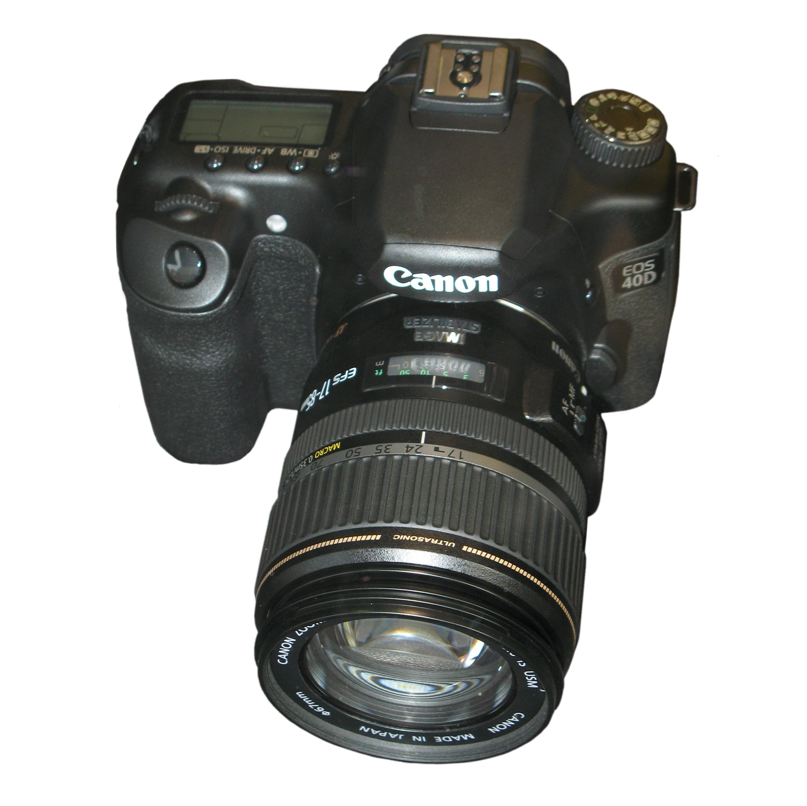 Canon EOS 40D